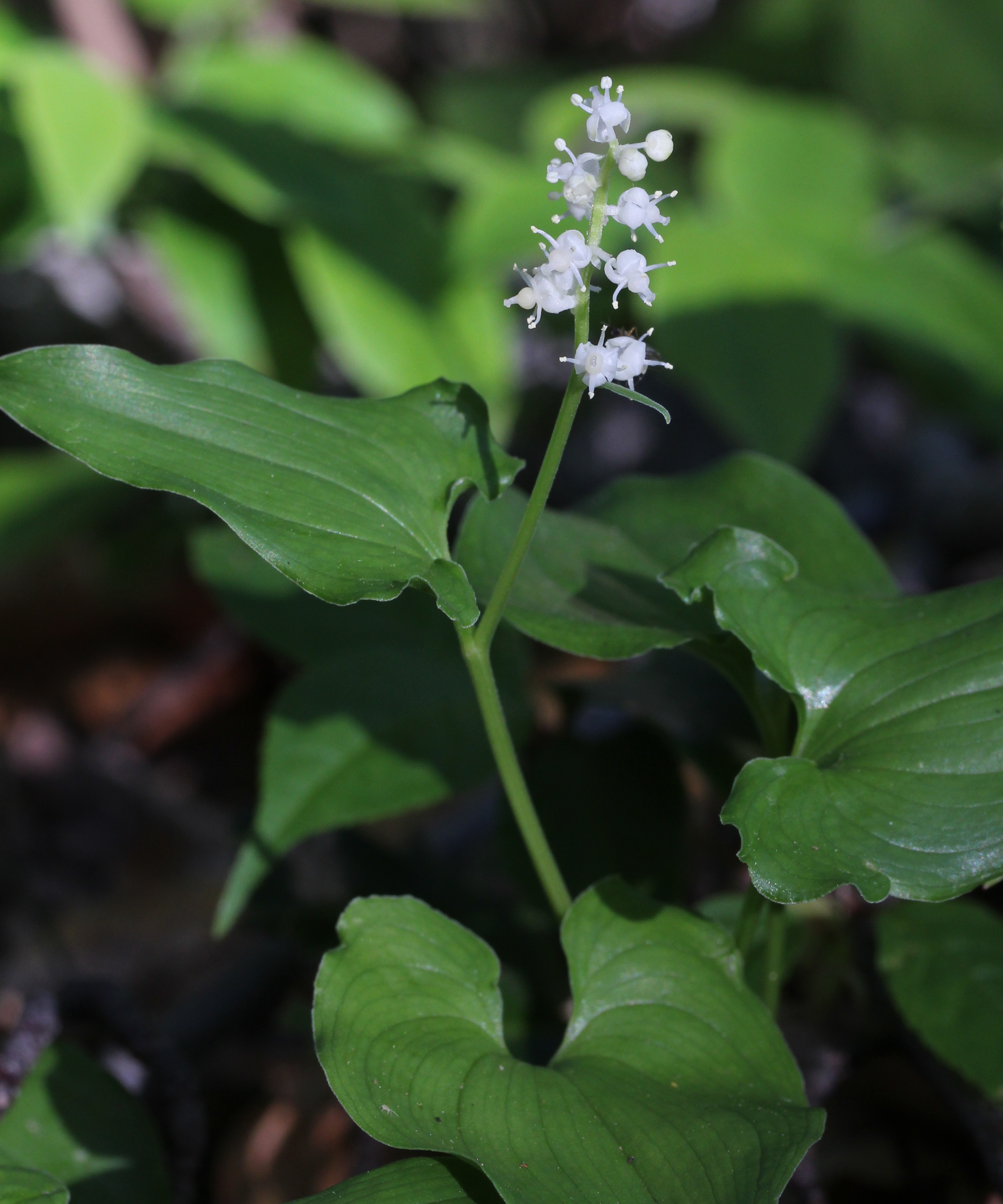 Maianthemum dilatatum, in Mount Chōshi, Gujō, Gifu prefecture, Japan.